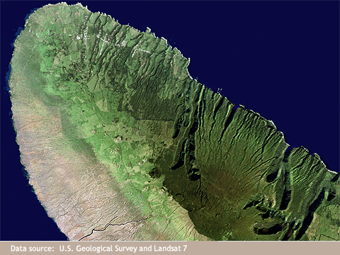 Landsat map of Kohala volcano in Hawaii.